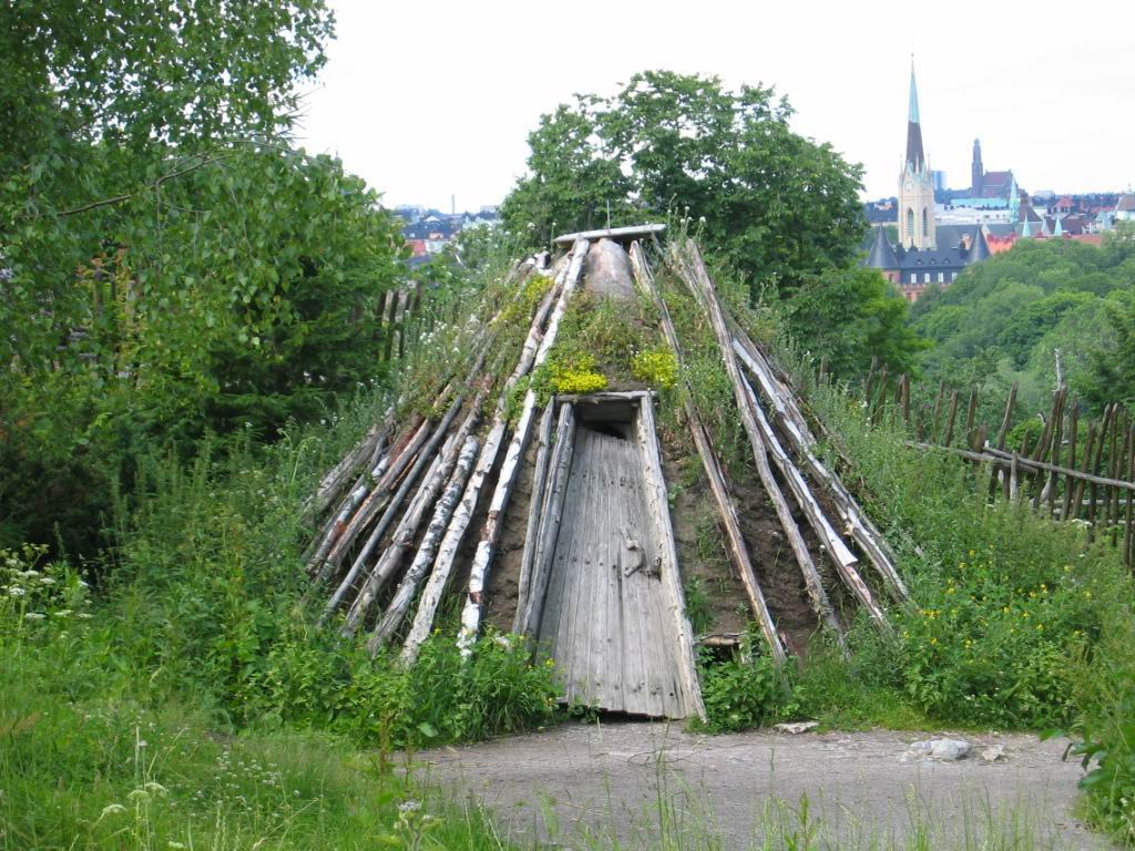 Typical sami hut at the open air museum Skansen (Sami camp area) in Stockholm